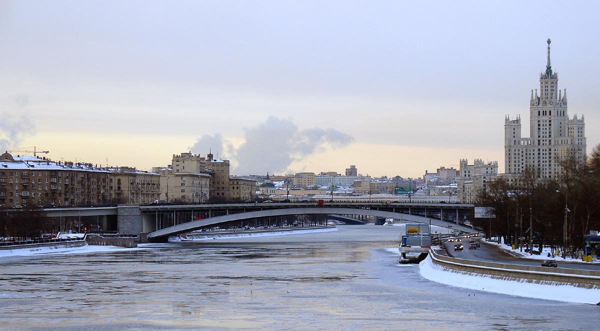 Bolshoy Krashnokholmsky Bridge, Moscow, Russia